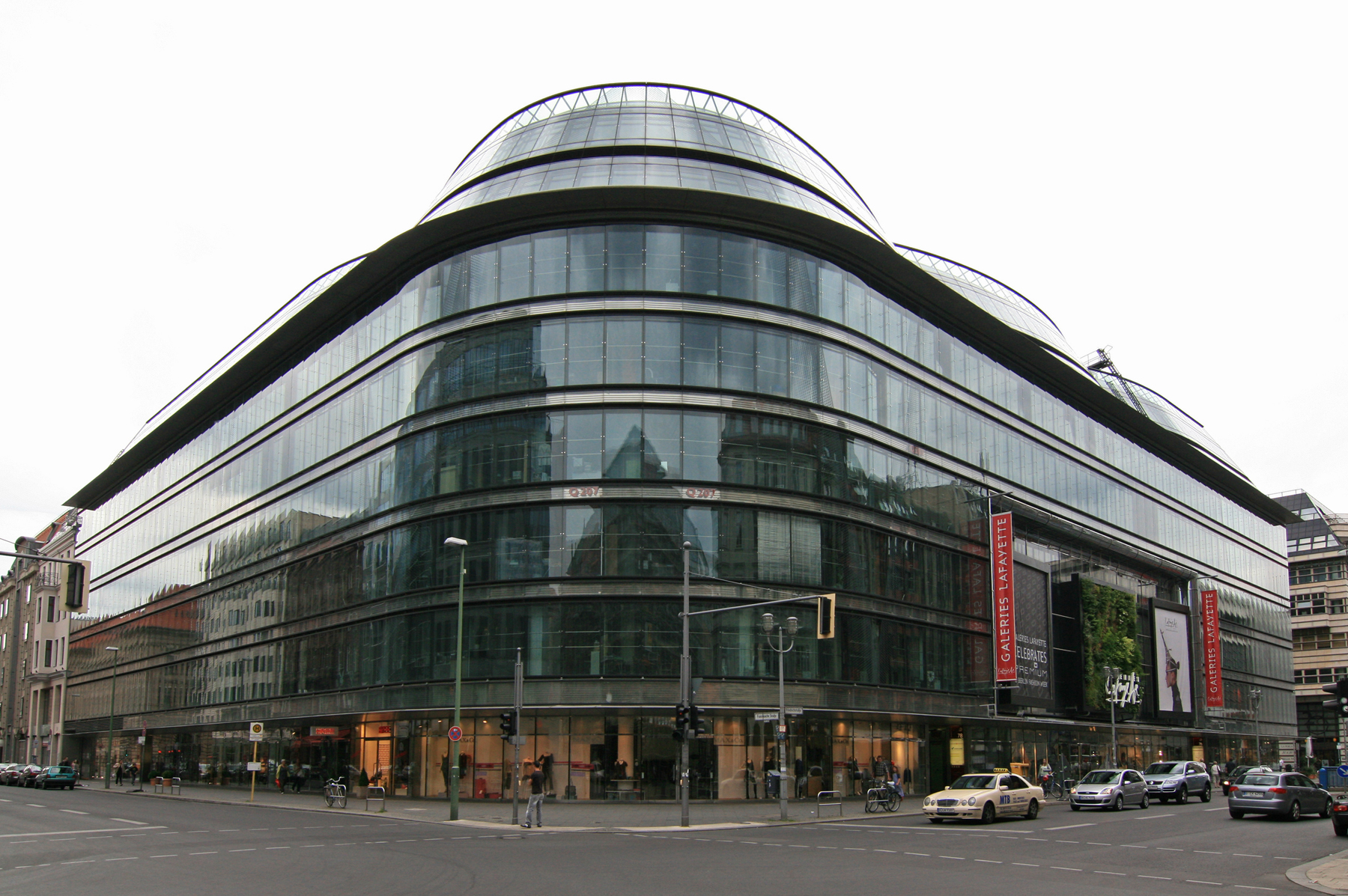 Galeries Lafayette, Berlin.